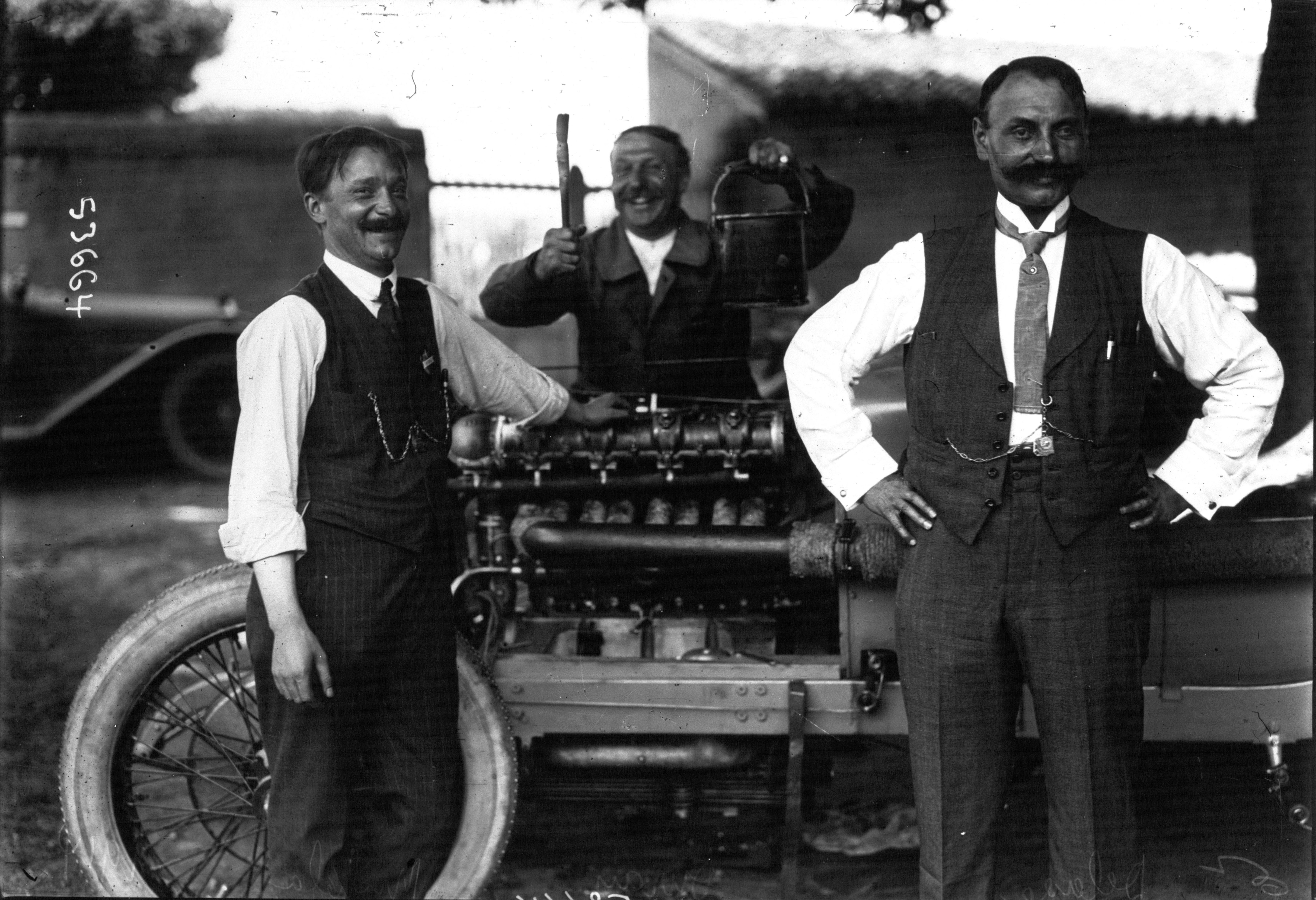 Arthur Duray at the 1914 French Grand Prix